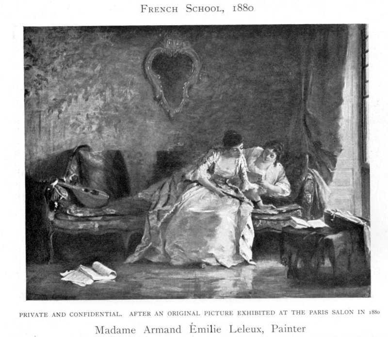 1905 print after page of Women painters of the world, from the time of Caterina Vigri, 1413-1463, to Rosa Bonheur and the present day, by Walter Shaw Sparrow, The Art and Life Library, Hodder & Stoughton, 27 Paternoster Row, London